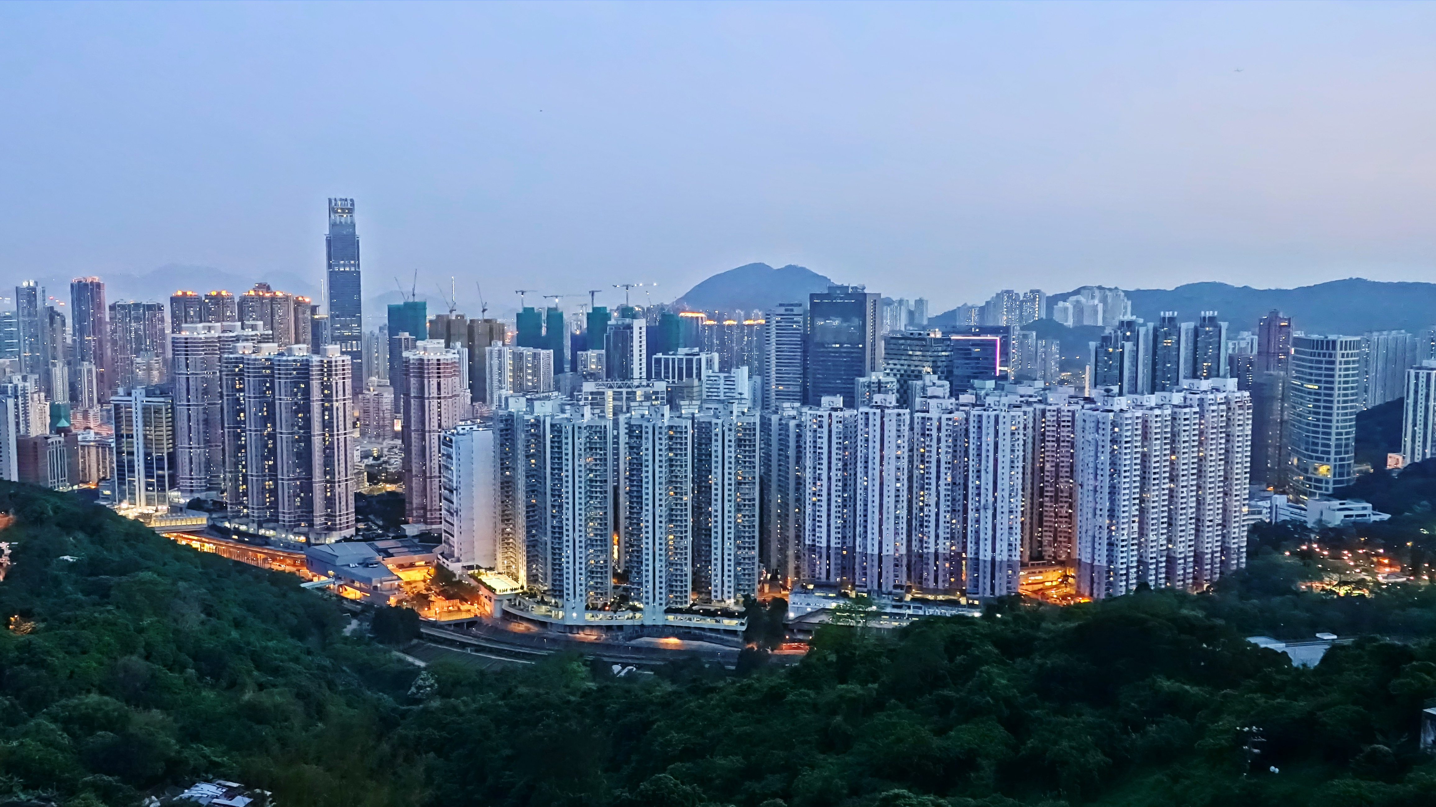 Tsuen King Garden, Tsuen Wan, Hong Kong.